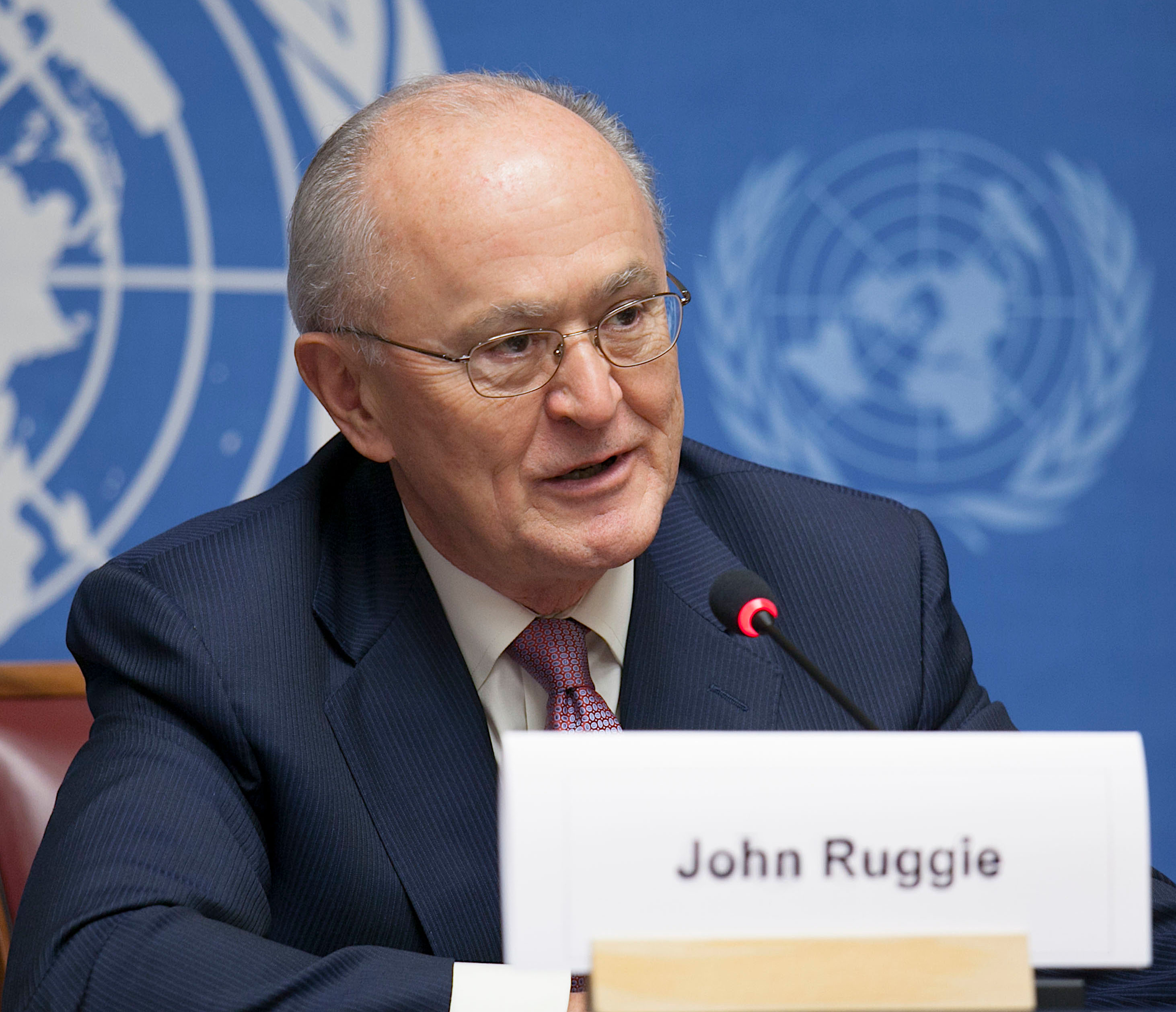 Around one thousand participants gathered in Geneva Dec 3-5 to participate in the Forum on Business and Human Rights, the largest global discussion to date on how governments and businesses are moving to address the impacts of business activities on human rights.